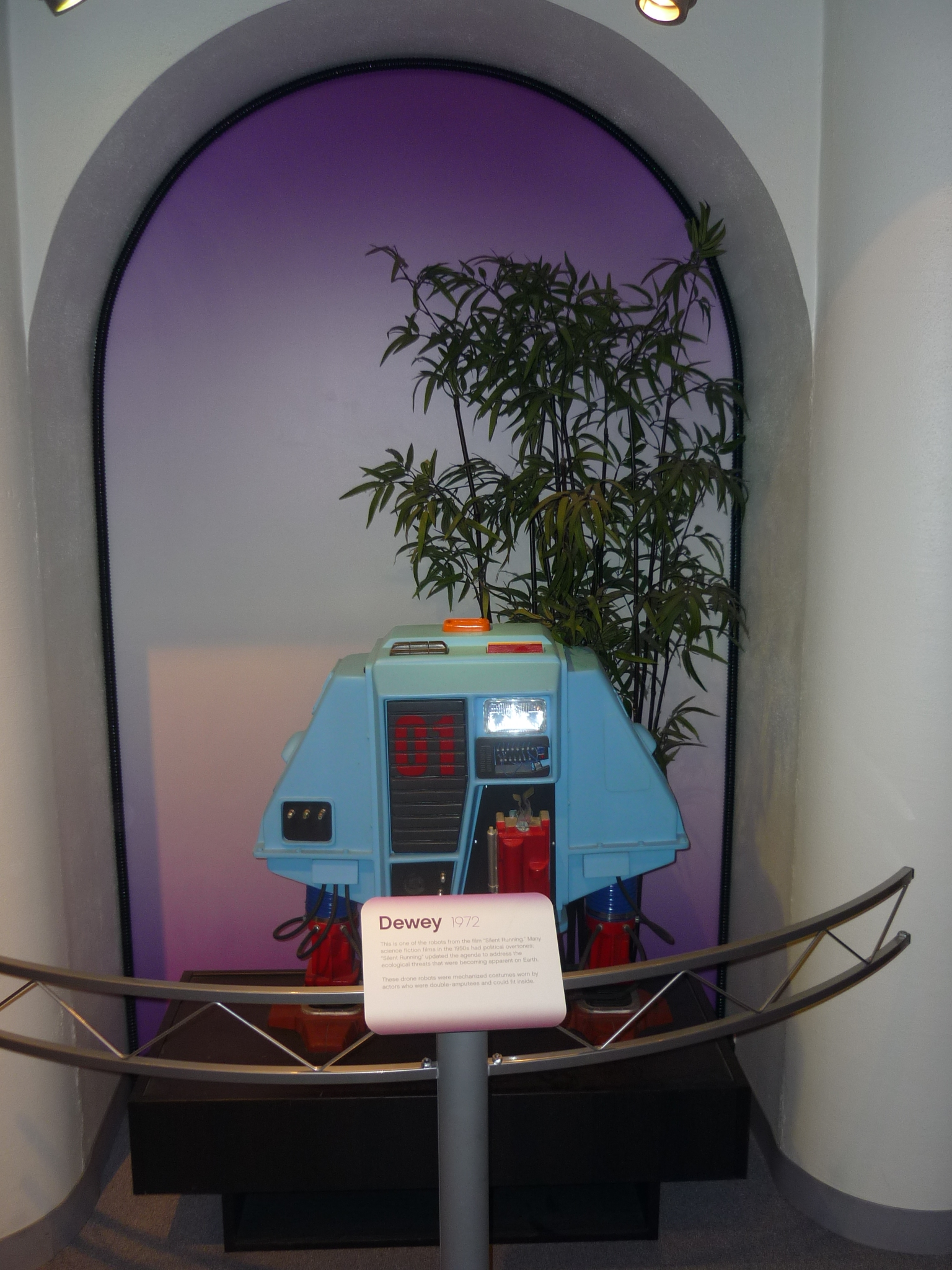 A replica of robot named Dewey featured in the Douglas Trumbull's film "Silent Running" (1971) at the Robot Hall of Fame, inaugural class of 2010, in Carnegie Science Center in Pittsburgh, PA.